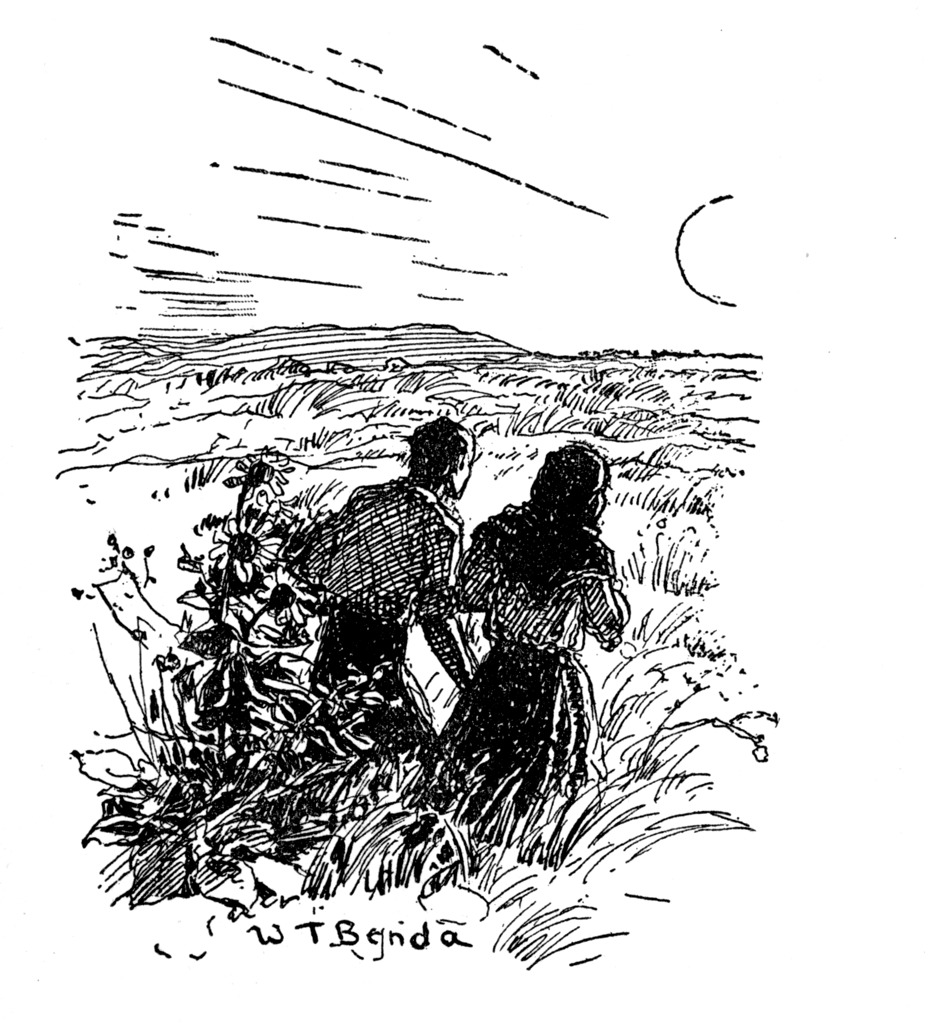 illustration by W. T. Benda (Władysław Teodor Benda), placed facing page 158 of the 13th impression of My Ántonia